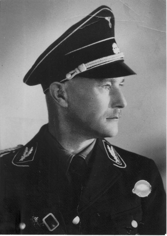 Kommandant at Dachau (1934-1936) and Columbia Haus (1936-1937.) He left the SS in 1937 and played no active role in the war. German authorities decline to prosecute him after the war. Deubel died on October 2, 1962 in Dingolfing, Germany.